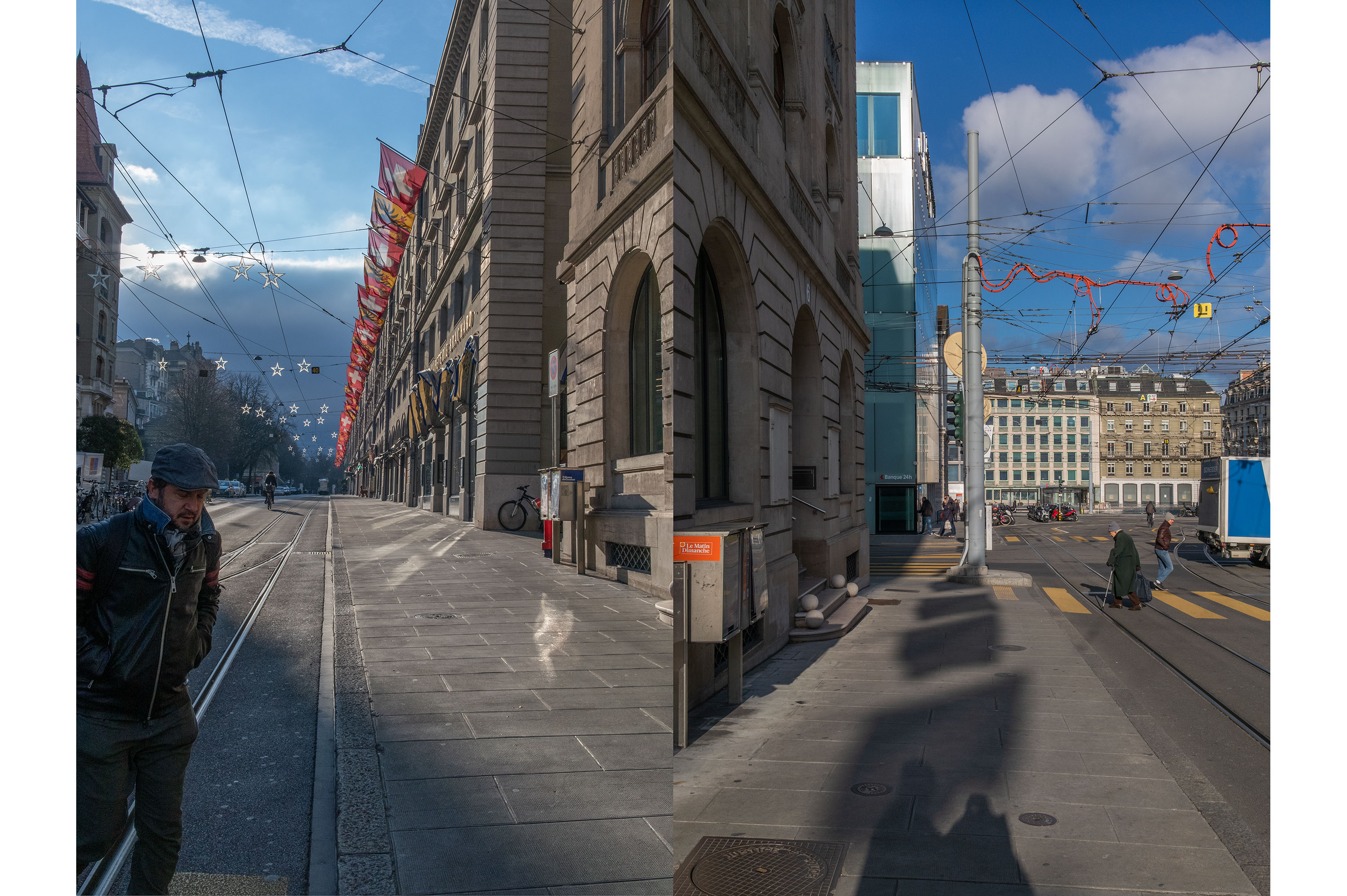 non smartphone dual photos captured in raw format help get higher detail and better overall image quality